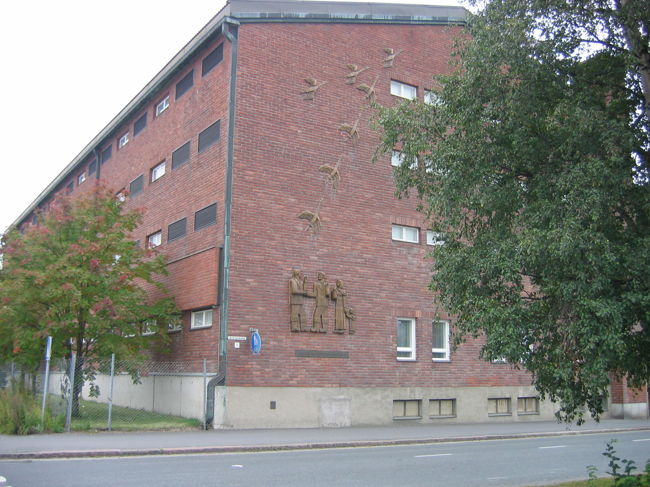 The archive of the province of Oulu, Finland.